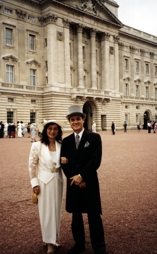 Jason and his wife were invited by the Queen her Majesty to attend the Summer Garden Party in Buckingham Palace.